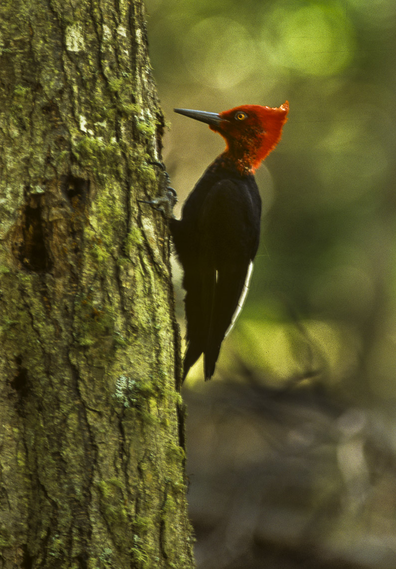 Magellanic Woodpecker - Tierra Fuegoo 0006